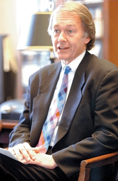 Democratic Massachusetts Representative Ed Markey, Ranking Member of the House Committee on Natural Resources.